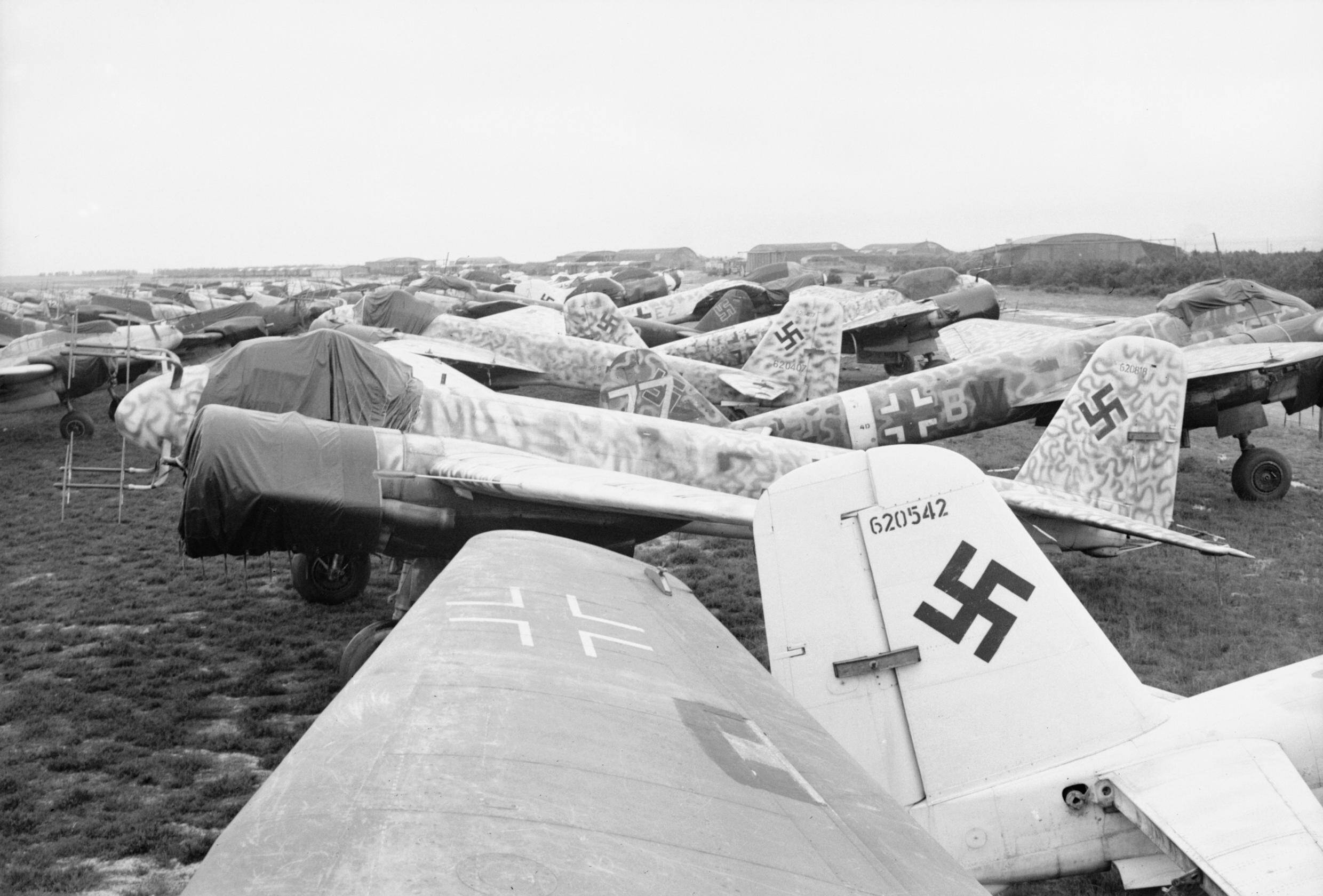 Junkers Ju 88 night fighters awaiting scrapping at Grove airfield in Denmark, 2 August 1945. Junkers Ju.88 night fighters parked at Grove airfield, Denmark, awaiting disposal.